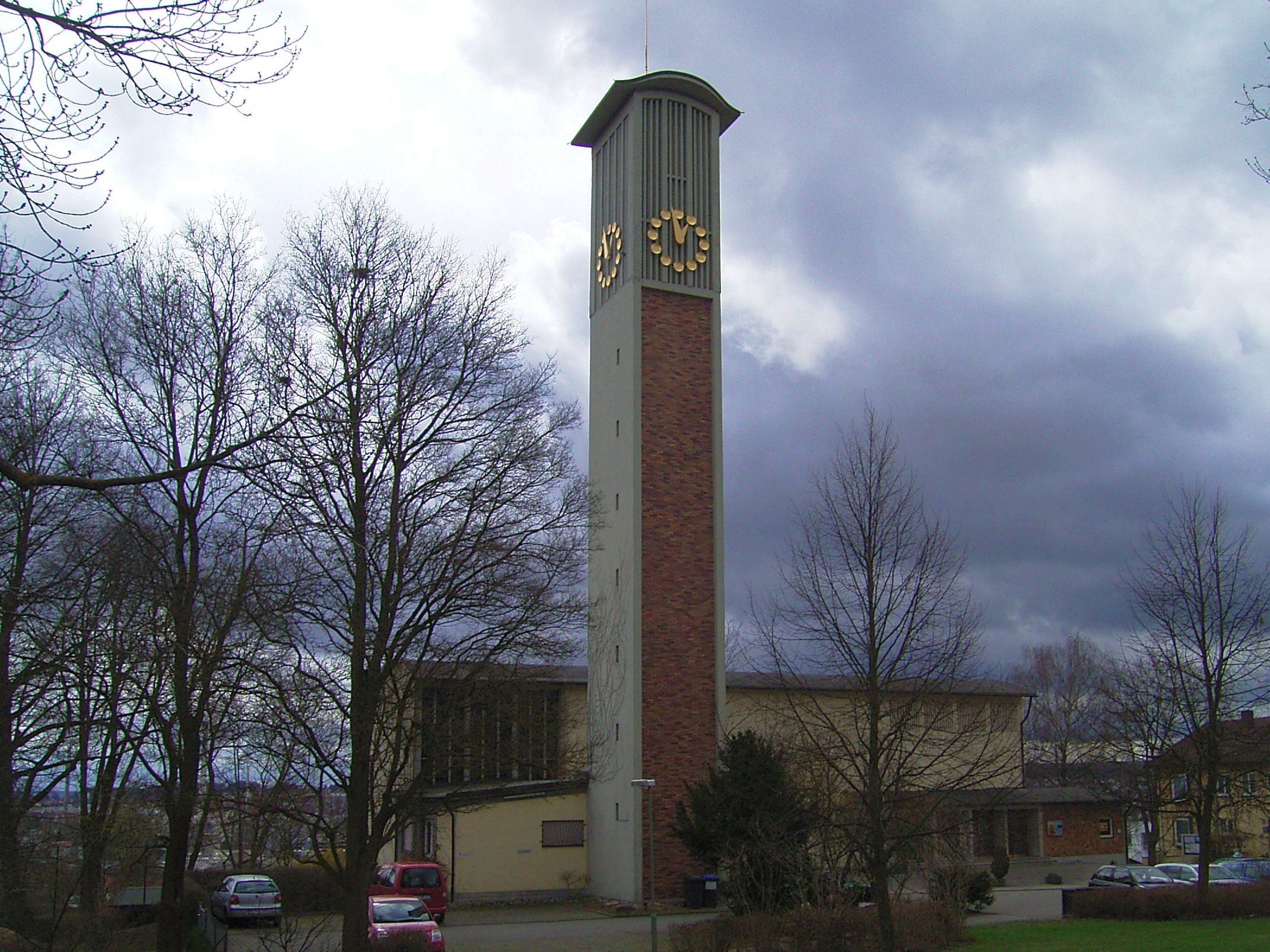 Lukaskirche, Ulm, Germany